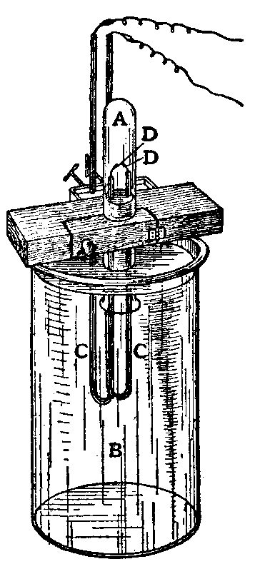 Cavendish's method for the isolation of Argon. The gases are contained in a test-tube (A) standing over a large quantity of weak alkali (B), and the current is conveyed in wires insulated by U-shaped glass tubes (CC) passing through the liquid and round the mouth of the test-tube. The inner platinum ends (DD) of the wire may be sealed into the glass insulating tubes, but reliance should not be placed upon these sealings. In order to secure tightness in spite of cracks, mercury is placed in the bends. With a battery of five Grove cells and a Ruhmkorff coil of medium size, a somewhat short spark, or arc, of about 5 mm is found to be more than favorable than a longer one. When the mixed gases are in the right proportion, the rate of absorption is about 30 cm3 per hour, about thirty times as fast as Cavendish could work with the electrical machine of his day. Where it is available, an alternating electric current is much superior to a battery and break, allowing the absorption in the apparatus to be raised to about 80 cm3/hour.